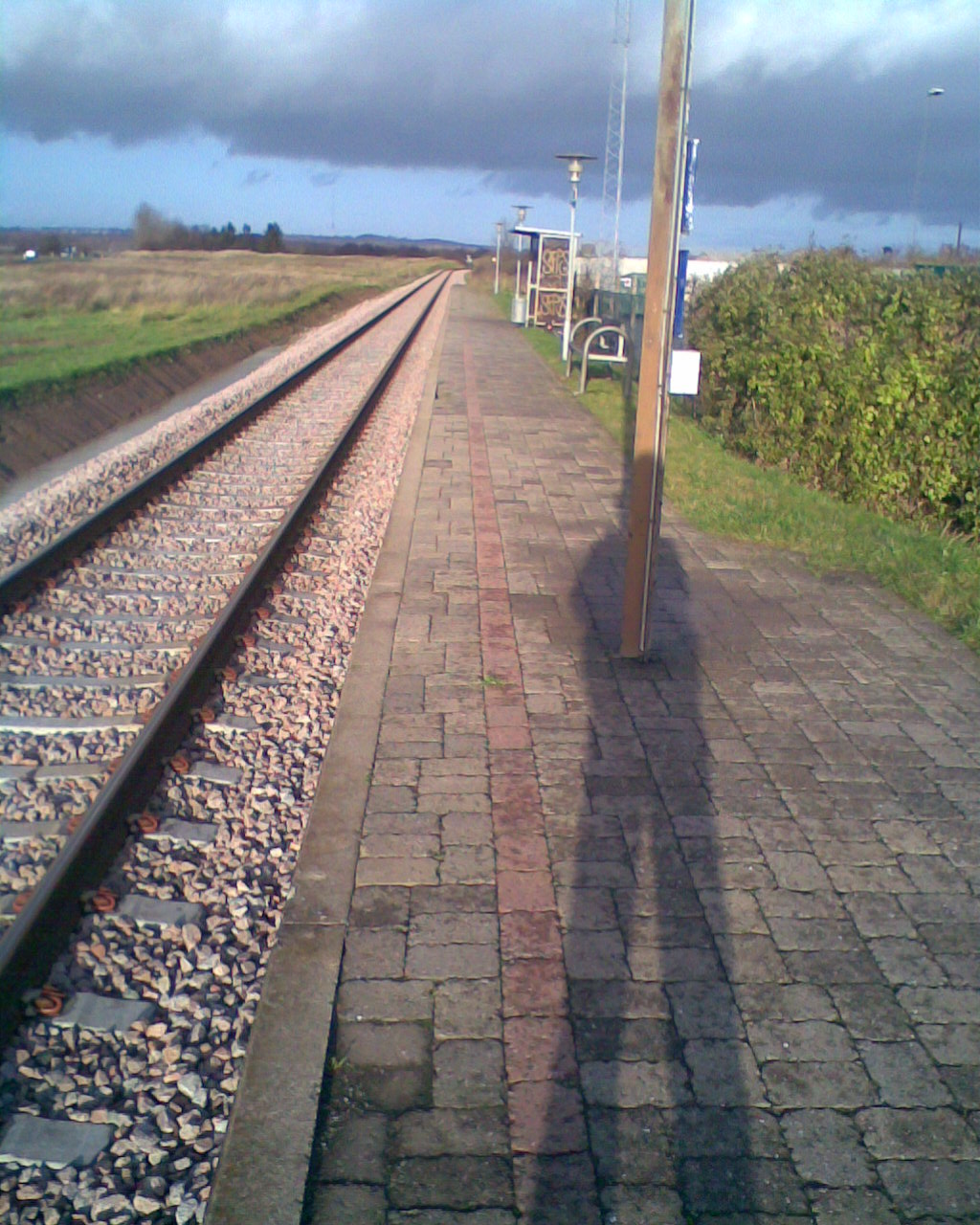 Egelund Station, Denmark